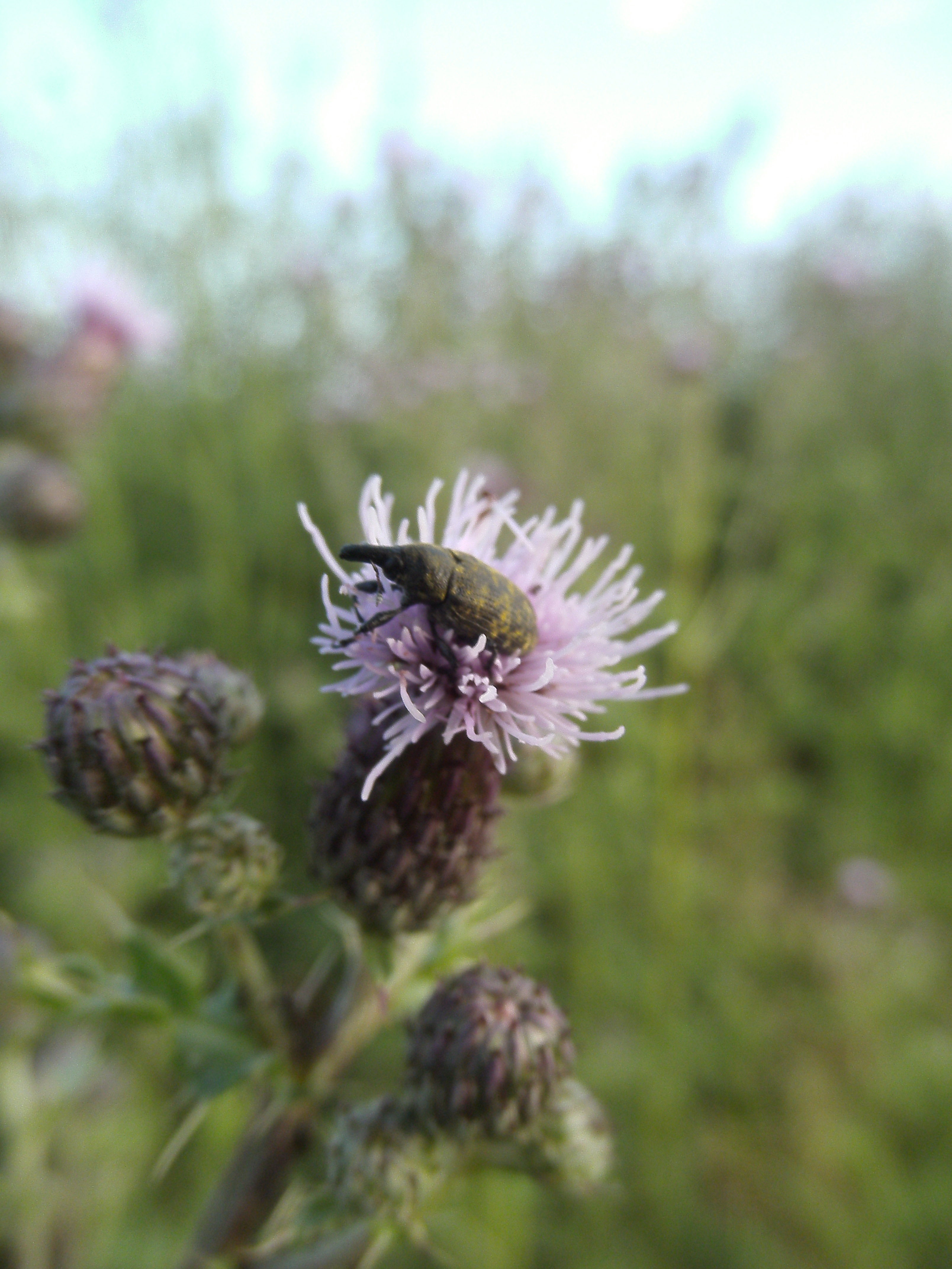 Weevil feeding on a thistle bloom.